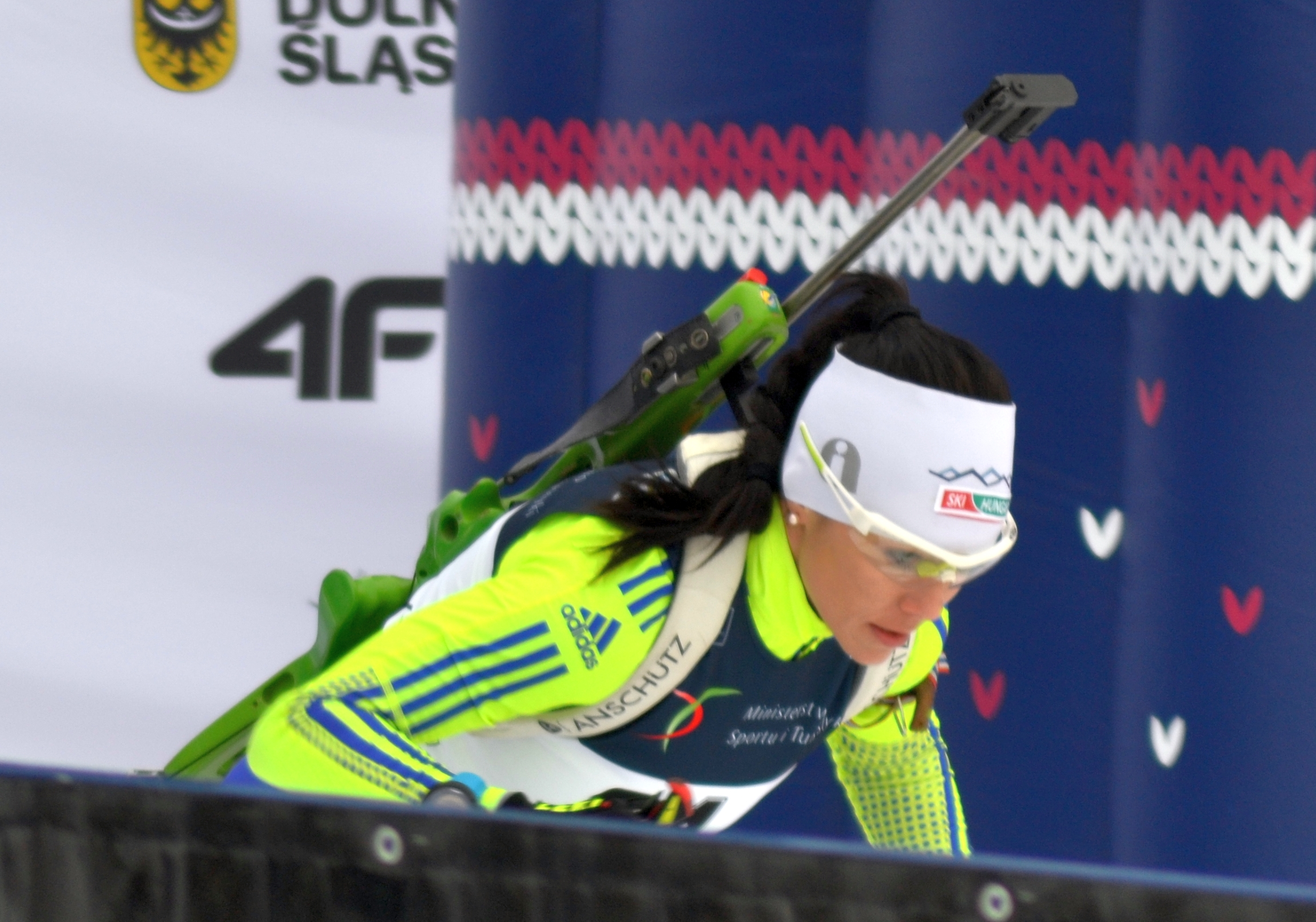 Open European Championships Biathlon 2017, Individual Women's race, held on January 25th.